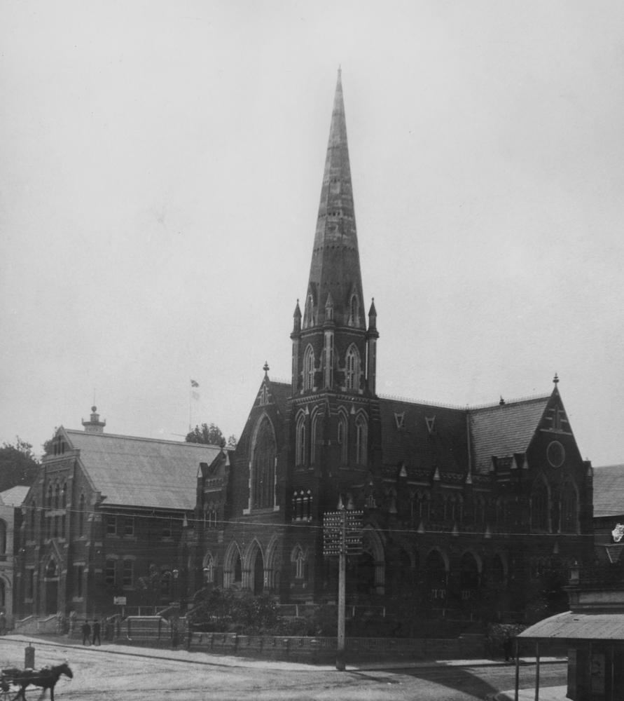 Photographer: Unidentified Location: Brisbane, Queensland, Australia Description: The church was opened on 8 November, 1889 by Lady Norman, wife of the Governor of Queensland. The building is of brick, with facings, Gothic spire, and fence railings and top, of limestone from Oamaru, New Zealand. The site of the Albert Hall, built ca. 1902, is now occupied by the S.G.I.O. building. View this image at the State Library of Queensland: Information about State Library of Queensland’s collection